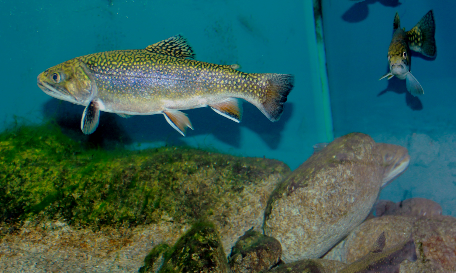 Fish Brook trout on exhibition Subaqueous Vltava, Prague 2011, Czech Republic